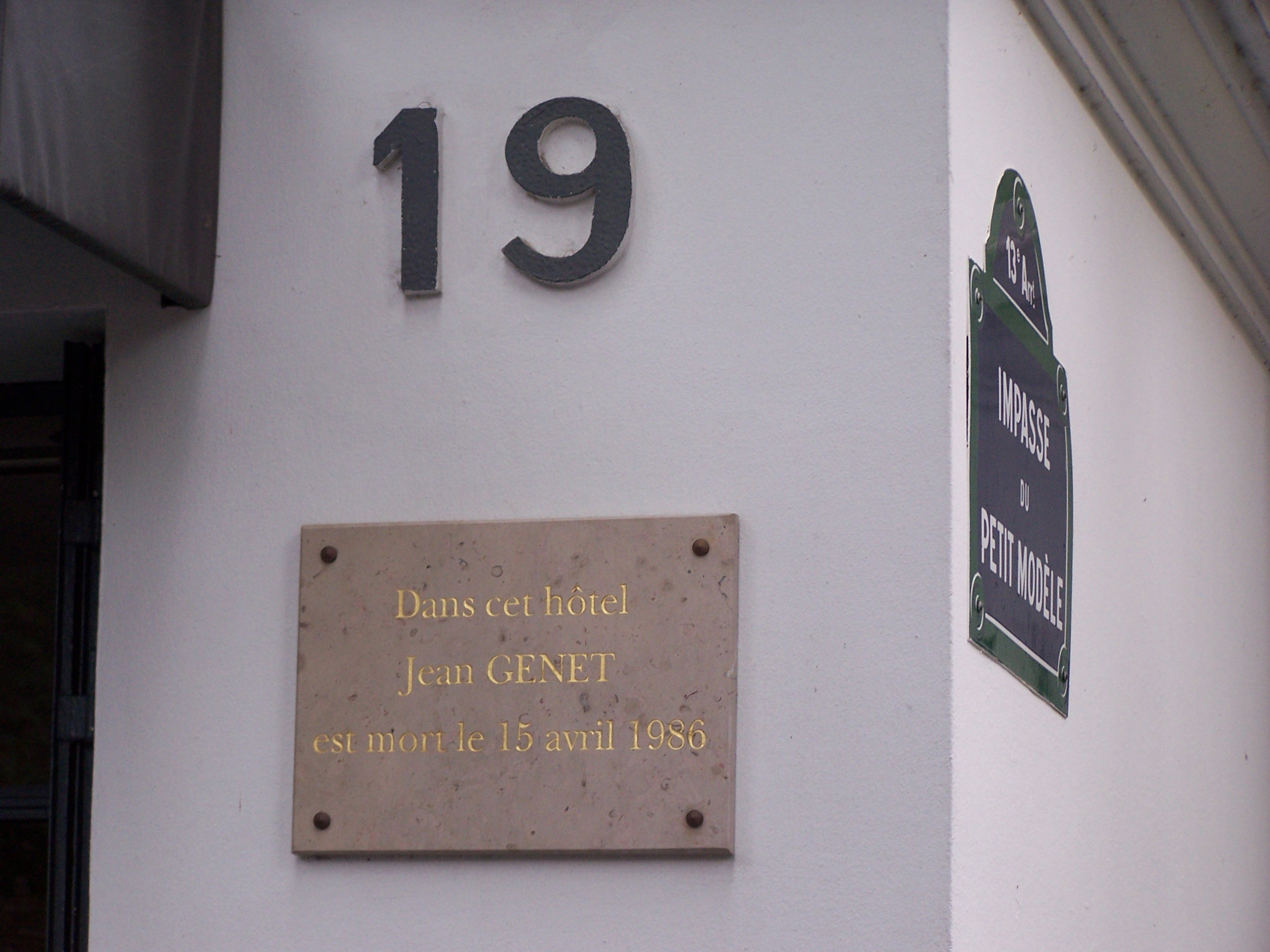 Commemorative plaque at 19, avenue Stéphen-Pichon remembering the place of the death of the french writer Jean Genet on April 15th 1986 in an hotel room.